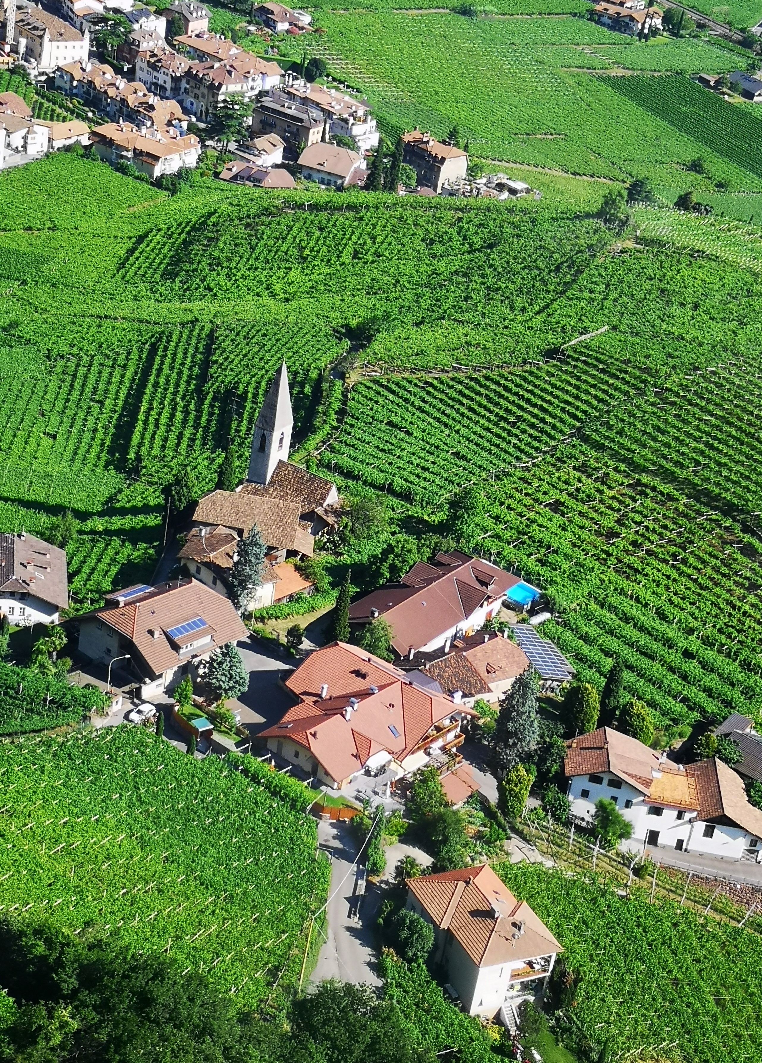 The St Magdalena hamlet near Bozen from above